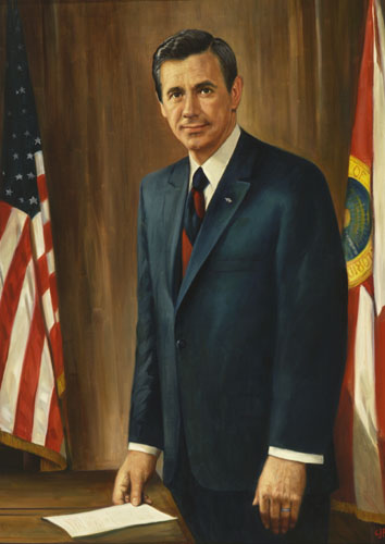 Governor of FLorida Reubin Askew